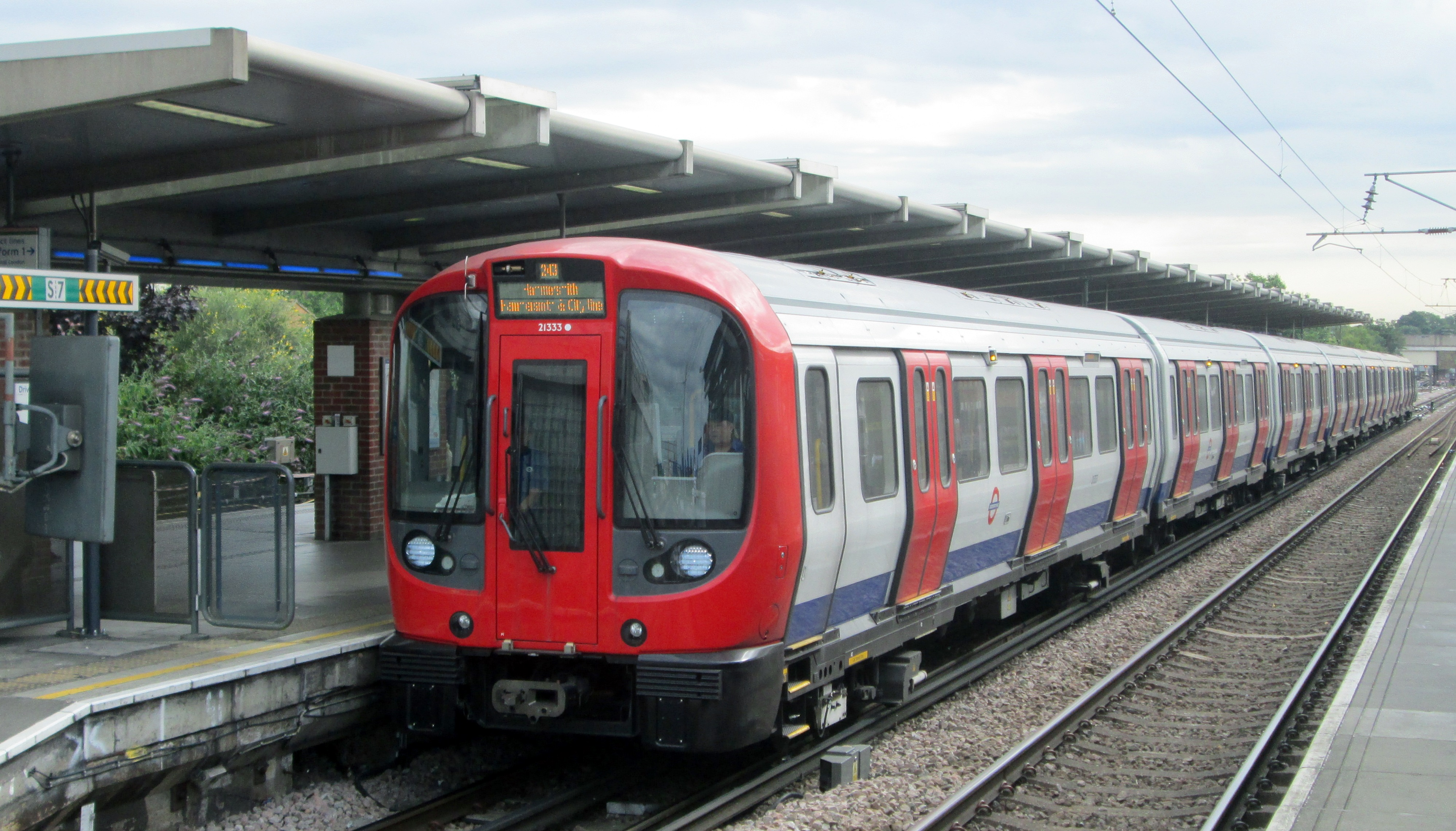 London Underground S7 Stock at West Ham station in July 2013.